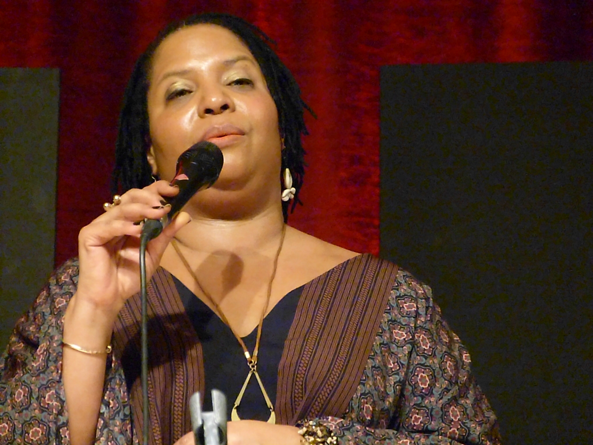 Fay Victor in concert “Herbie Nichols Sung” February 26, 2016 at Loft Cologne, Germany, together with Tobias Delius and Achim Kaufmann